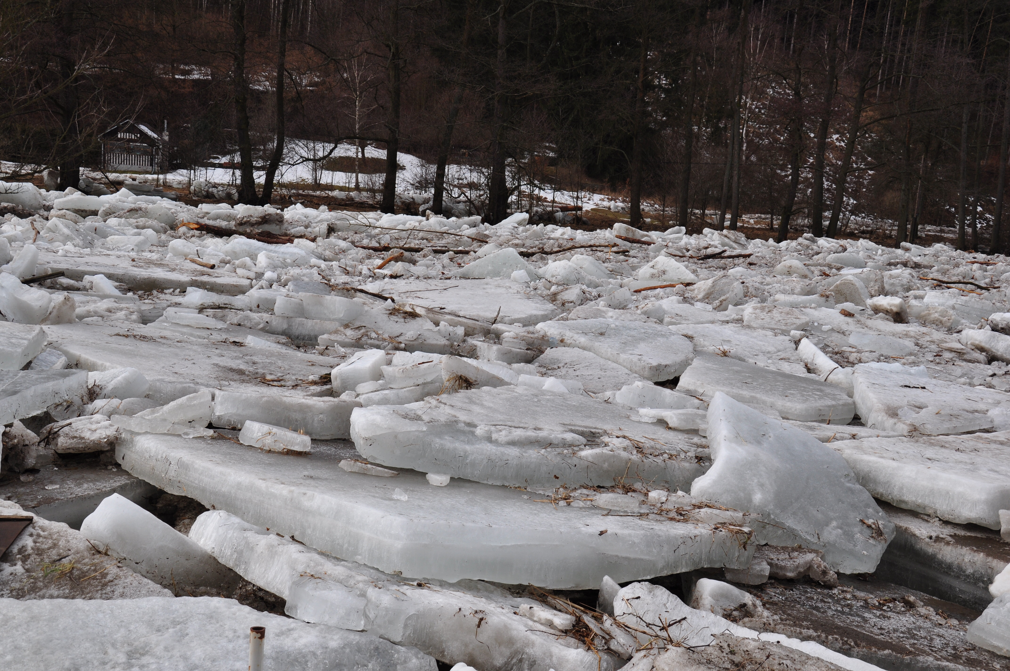 Ice cakes on a meadow around a creek Bobrůvka (Moravia, Czechia)